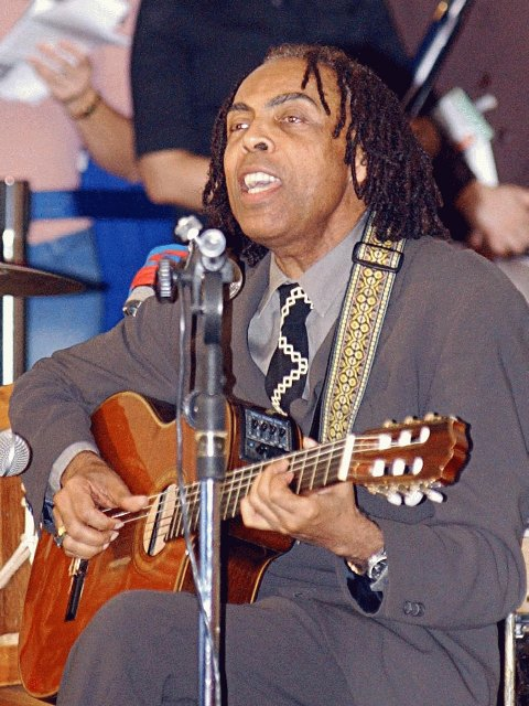 Gilberto Gil, Minister of Culture, Brazil. This photo appeared as 10777.jpg on 30.Oct.2003. The photo was downloaded, cropped, and resized by Hajor.